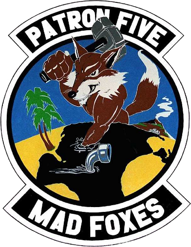 Insgnia of Patrol Squadron 5 (VP-5) "Mad Foxes" of the United States Navy.